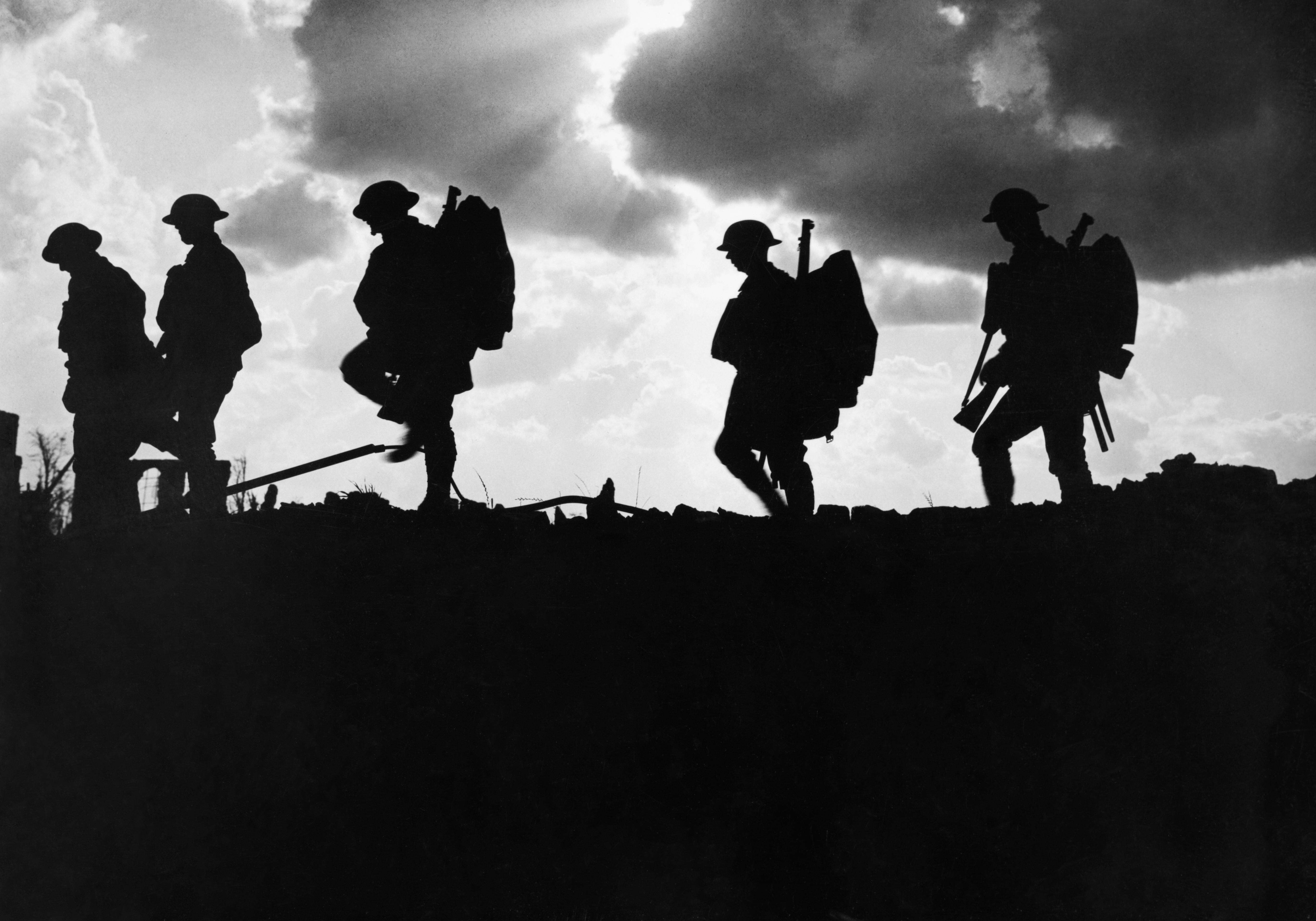 Five soldiers silhouetted against the sky. Rays of sun burst through dark clouds to create a dramatic and atmospheric shot. They are all wearing steel helmets, and three of them are clearly carrying rifles and backpacks.Original reads: 'BATTLE OF BROODSEYNDE [sic] RIDGE. - TROOPS MOVING UP AT EVENTIDE. MEN OF A YORKSHIRE REGIMENT ON THE MARCH.'The Imperial War Museum caption (Q 2978) gives "A silhouetted file of men of the 8th Battalion, East Yorkshire Regiment going up to the line near Frezenberg.")